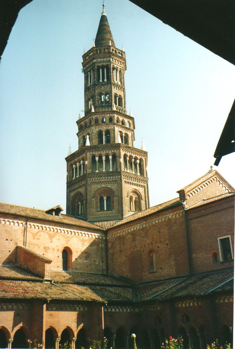 The bell tower of "Chiaravalle" abbey near Milan (Italy), as seen from the cloister. It was completed in 1349, and it is given to architect Francesco Pecorari.